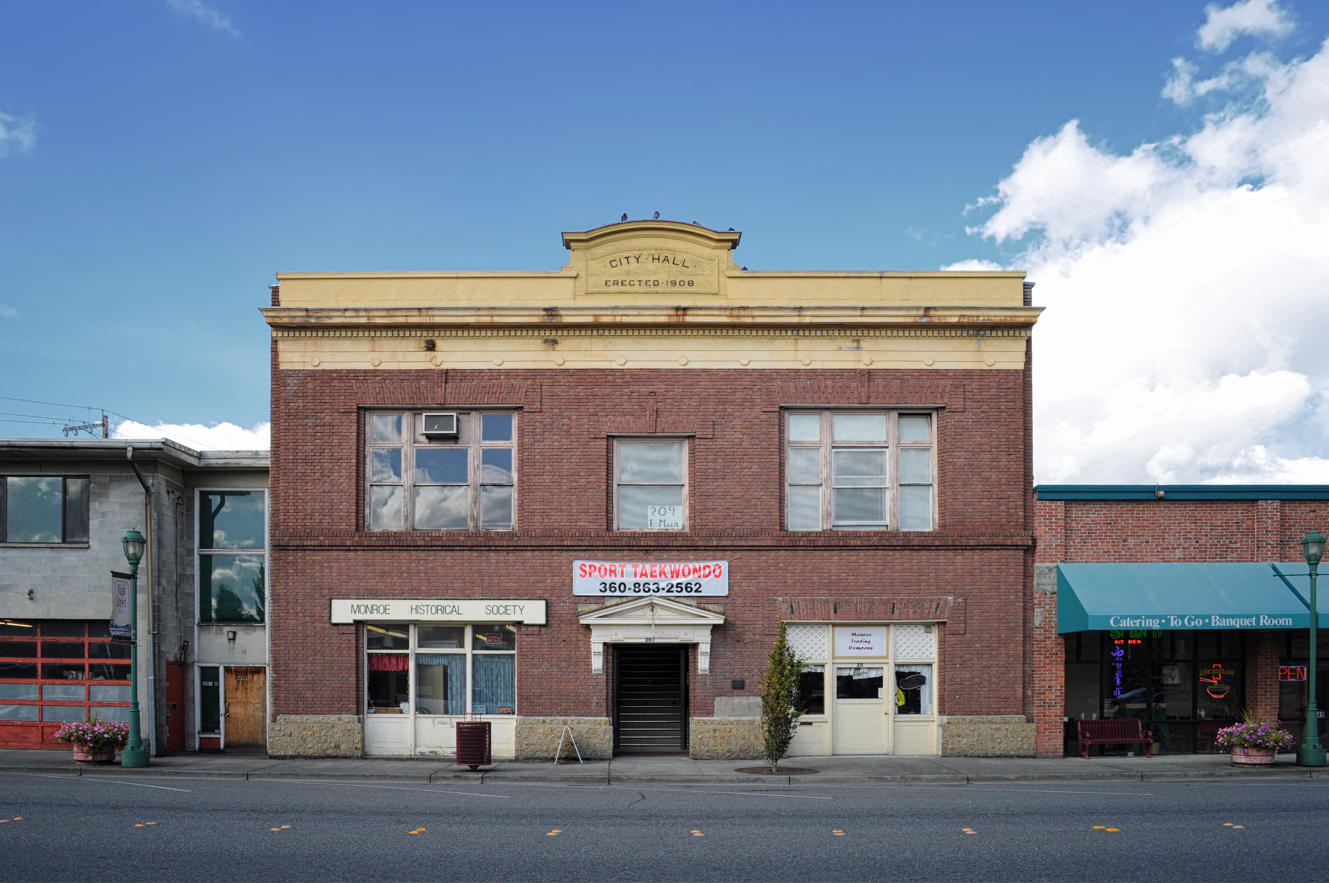 Old City Hall, Monroe, Washington, now housing the Monroe Historical Society / Monroe Historical Museum.